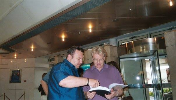 Jerry Springer with Chris Barfoot script.